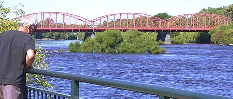 A man on the waterfront in downtown Lowell examines the flooded Merrimack River (taken Sept. 20, 2004) © 2004 Matthew Trump